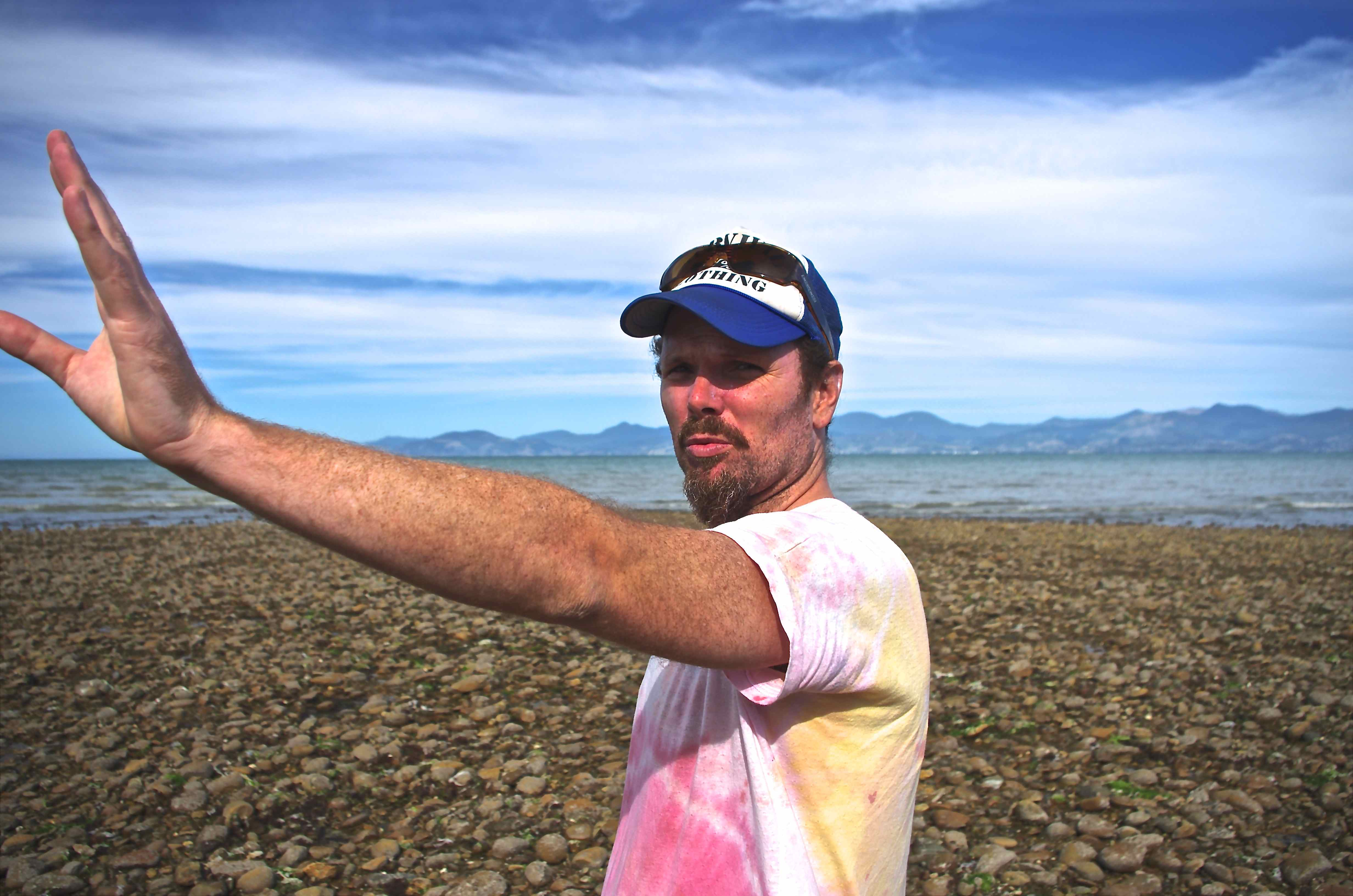 Portrait of New Zealand artist Tao Wells, taken at Ruby Bay, Nelson, New Zealand